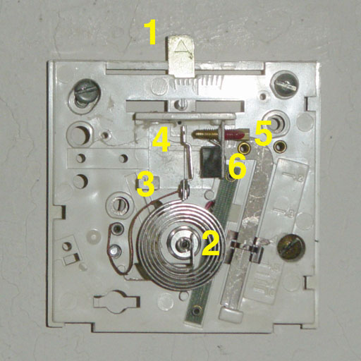 Mechanism of a household thermostat